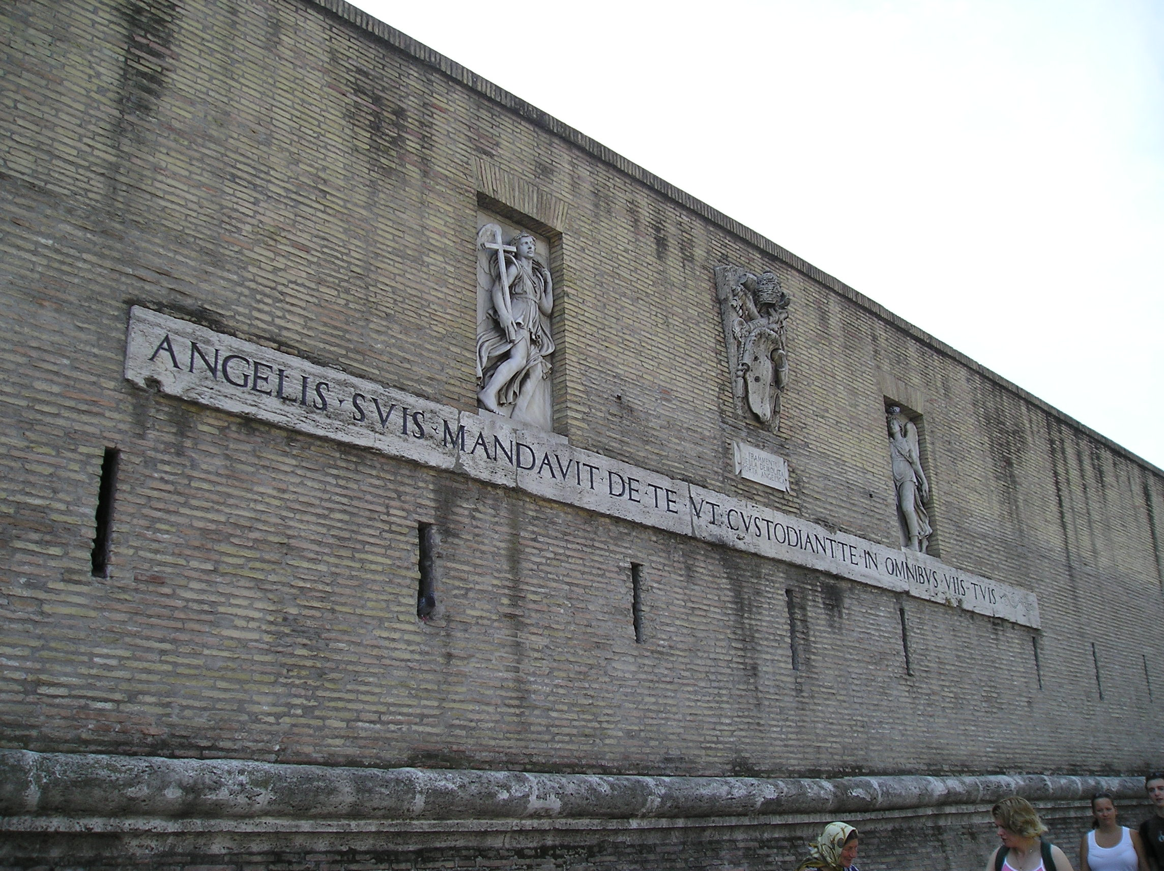 Vatican wall with inscription Psalm 91:11 (Vulgate 90:11)